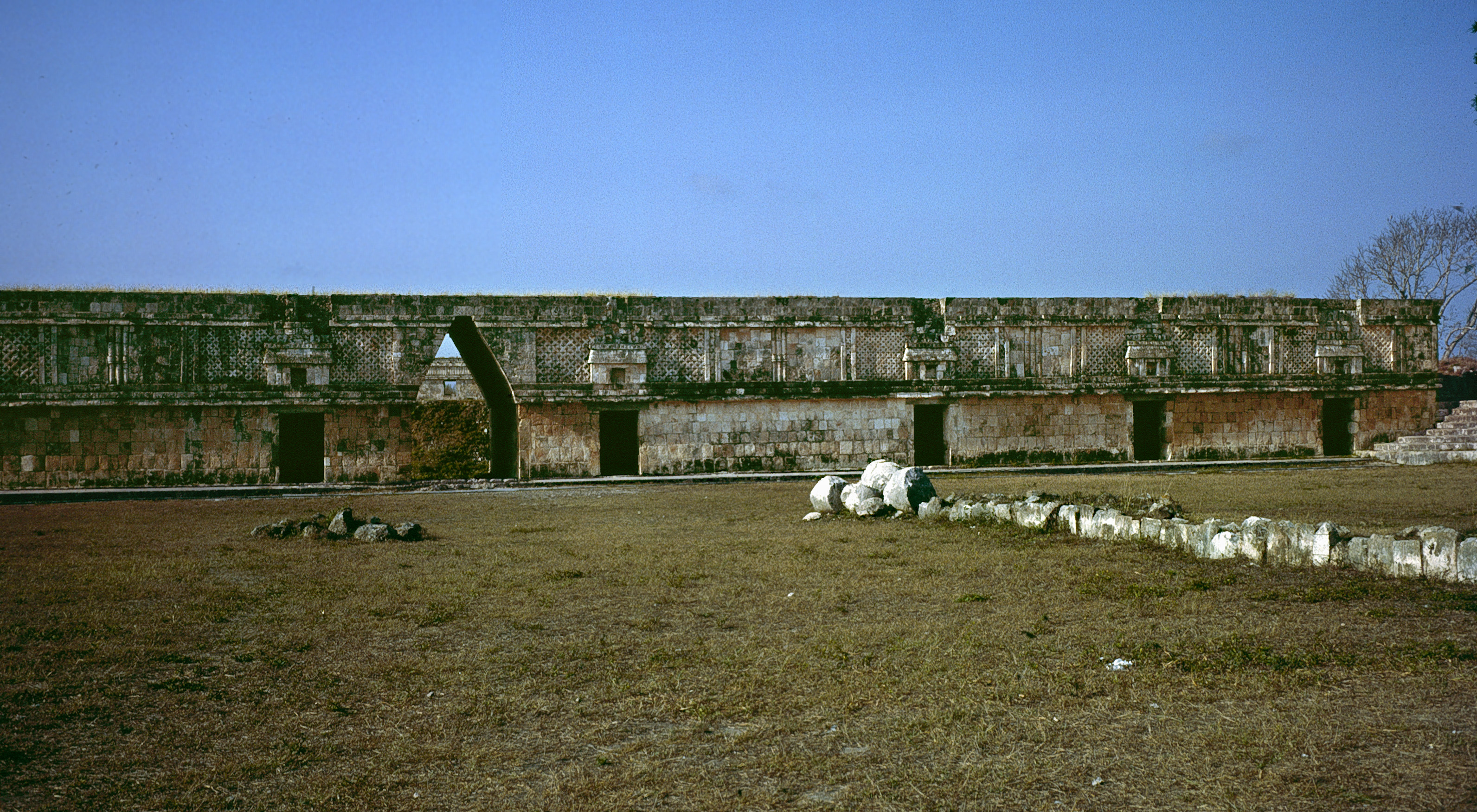 Uxmal, Yucatan, Mexico: Monjas, south building, north side